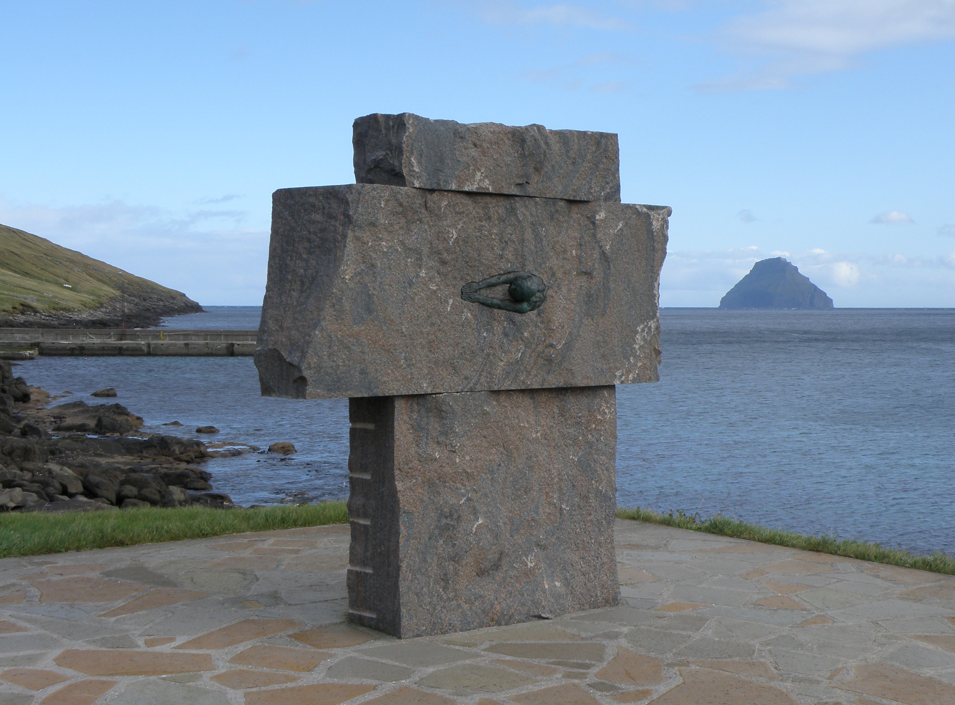 This memorial is called "Sigmundur Brestisson - Hin seinasta ferðin", which means "Sigmundur Brestisson - The last journey". The memorial was made by the Faroese sculptor Hans Pauli Olsen in 2006. It is located in Sandvík in Suðuroy, Faroe Islands, close to Sigmundsgjógv. It is said, that the Viking Chief Sigmundur Brestisson, who was the one who brought Christianity to the Faroe Islands in the year 999, fled from his enemies by swimming from Skúvoy to this place in northern Suðuroy, which now is called Sigmundsgjógv (The Gorge of Sigmundur), named after him. Unfortunately Brestisson was killed just after swimming the long way by a local farmer who was called Tórgrímur Illi (Torgrimur the Mean). Tórgrímur then stole Brestisson's golden arm ring. The island Lítla Dímun, which is the smallest of the 18 islands of the Faroes is visible in the back ground. Føroyskt: Hans Pauli Olsen gjørdi hesa standmyndina í 2006. Hon var reist til minnis um Sigmund Brestisson, sum kristnaði Føroyar í 999. Føroyinga Saga sigur, at Sigmundur flýddi undan Trónda í Gøtu og hansara monnum av oynni Skúvoy og svam allan tann langa teinin til Sandvíkar í Suðuroynni. Staðið har hann kom upp er beint við hesa standmyndina og nevnist Sigmundsgjógv.